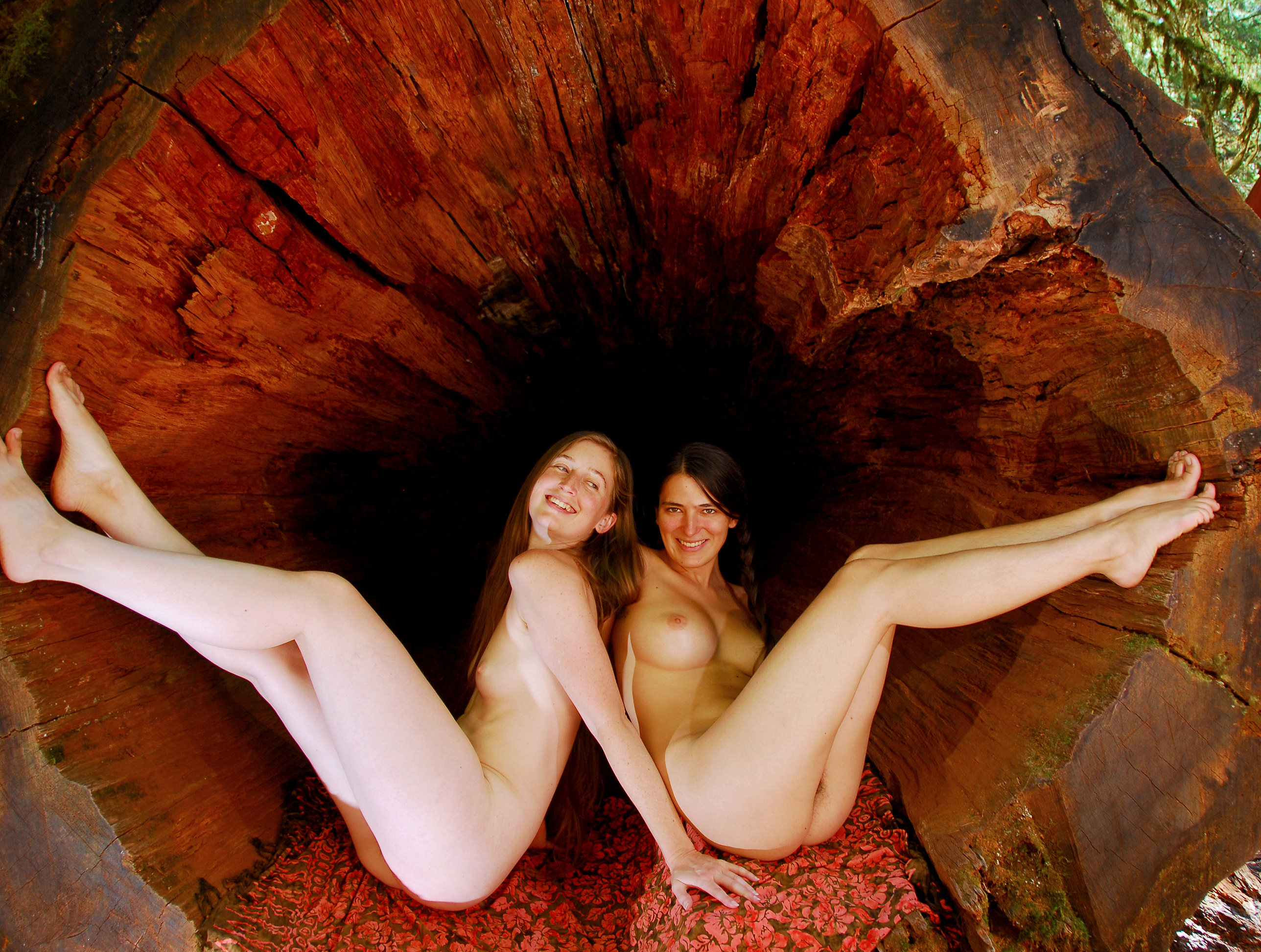 Two nude women sitting on a blanket inside a hollow tree trunk at Bagby Hot Springs, Oregon, USA.